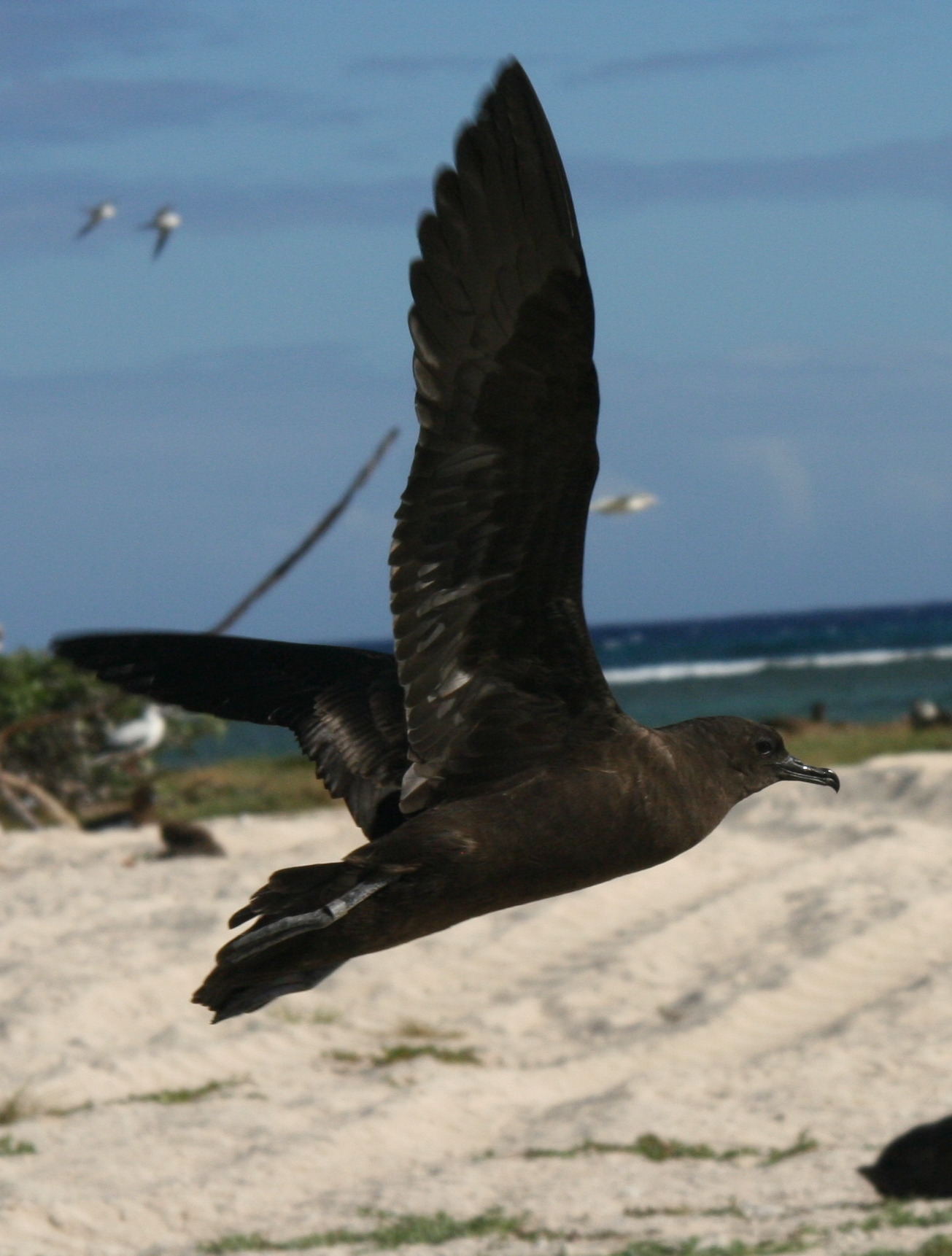 Christmas Shearwater Puffinus nativitatis in flight. French Frigate Shoals